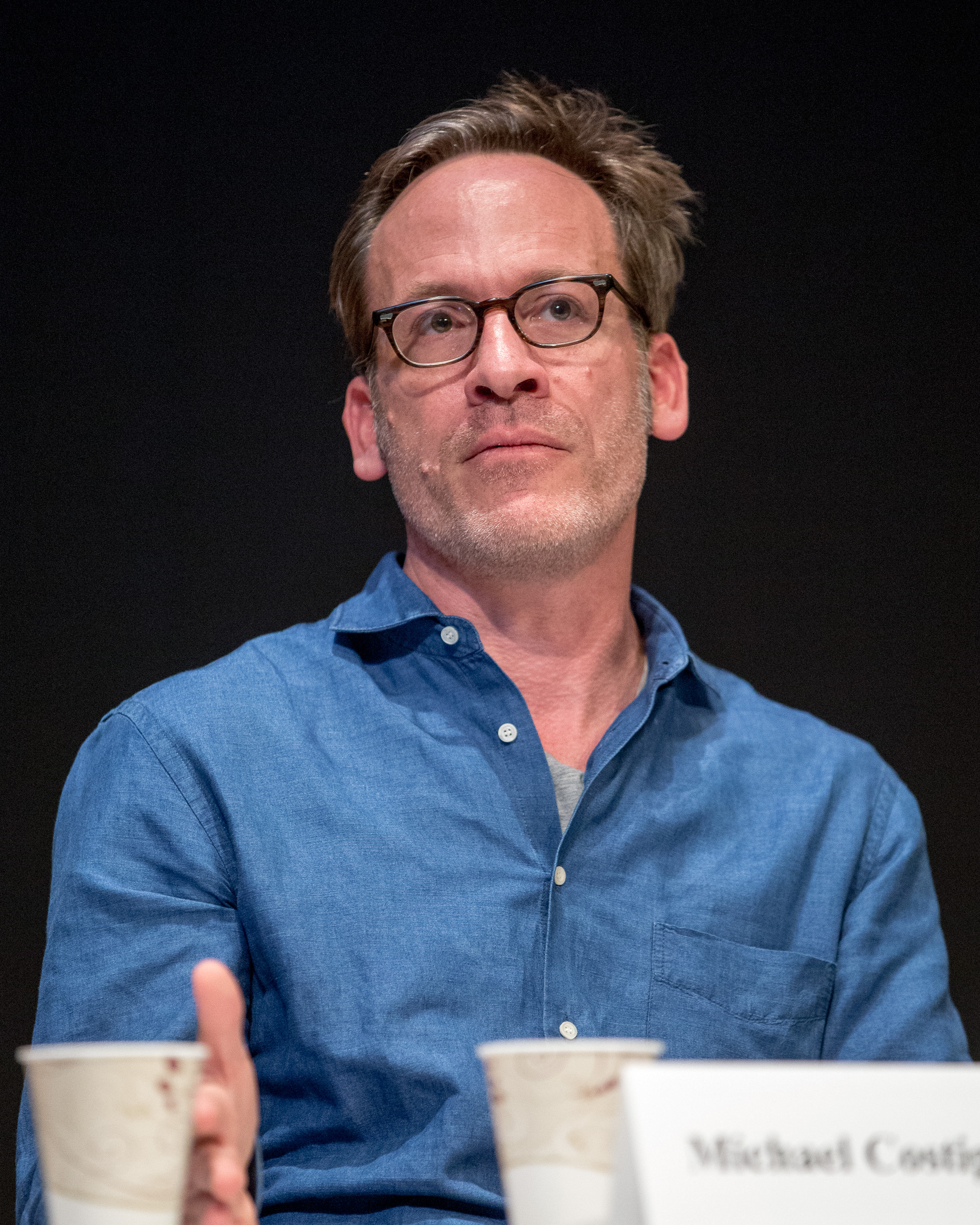 Michael Costigan, producer, COTA Films. 2015 photo.